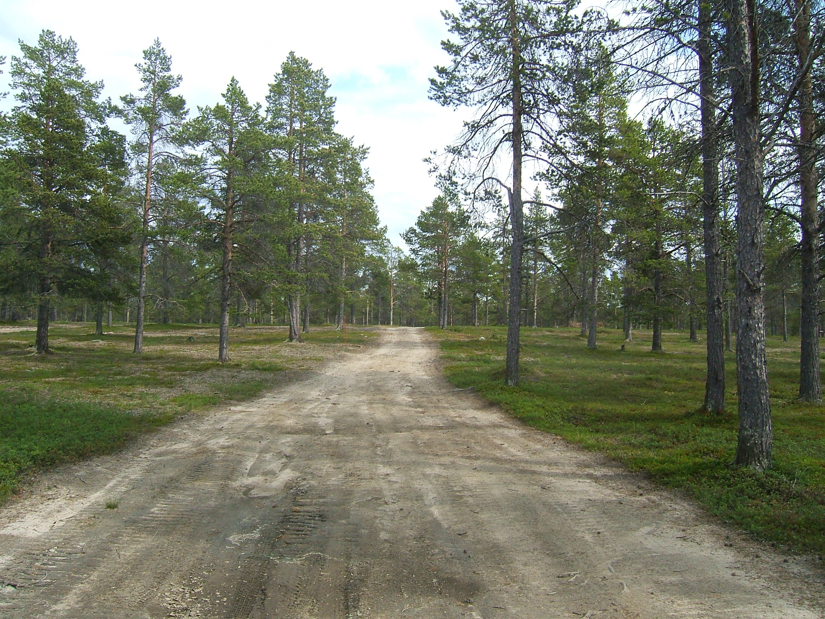 Sand with pines... one would say the Campine here